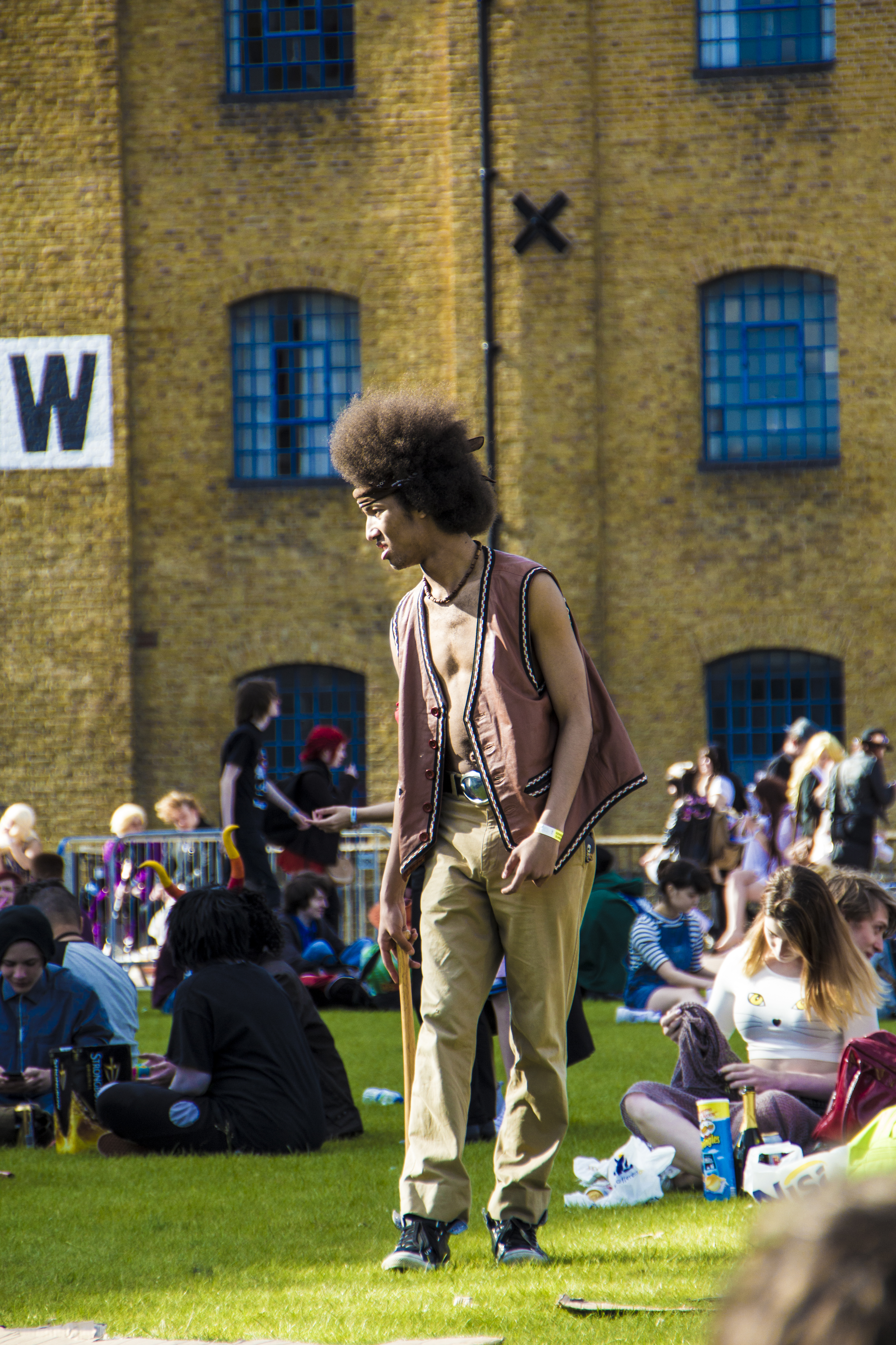 Cosplay at the May 2014 MCM London Comic Con.